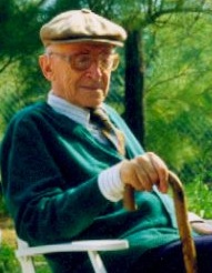 Claude Cahen in his property of Morvan, in Chézet, in 1989